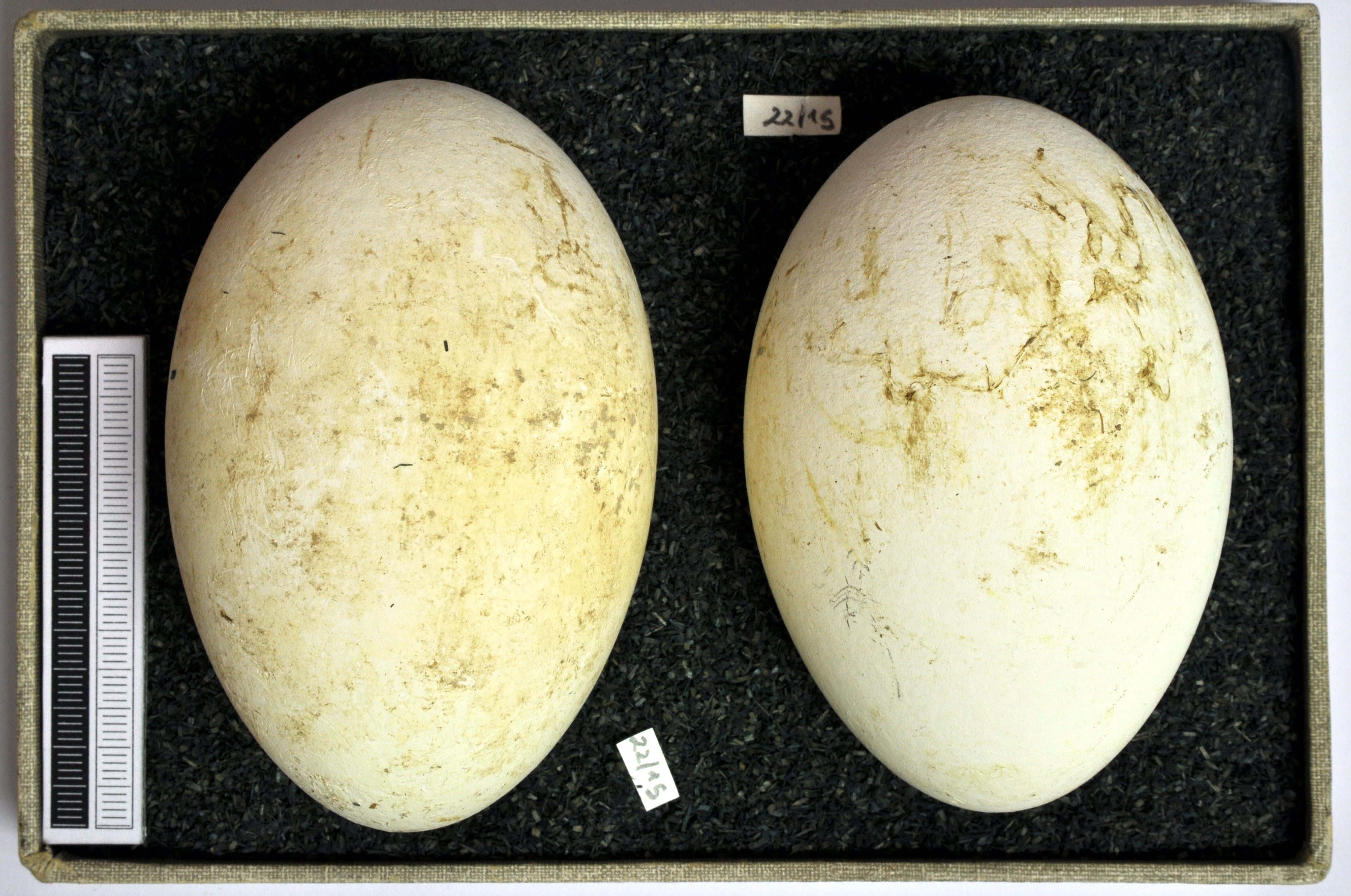 Great white pelican Pelecanus onocrotalus, egg, Coll. Museum Wiesbaden, Origin: Anatolia, 24.05.1972, leg. W. Abelmann